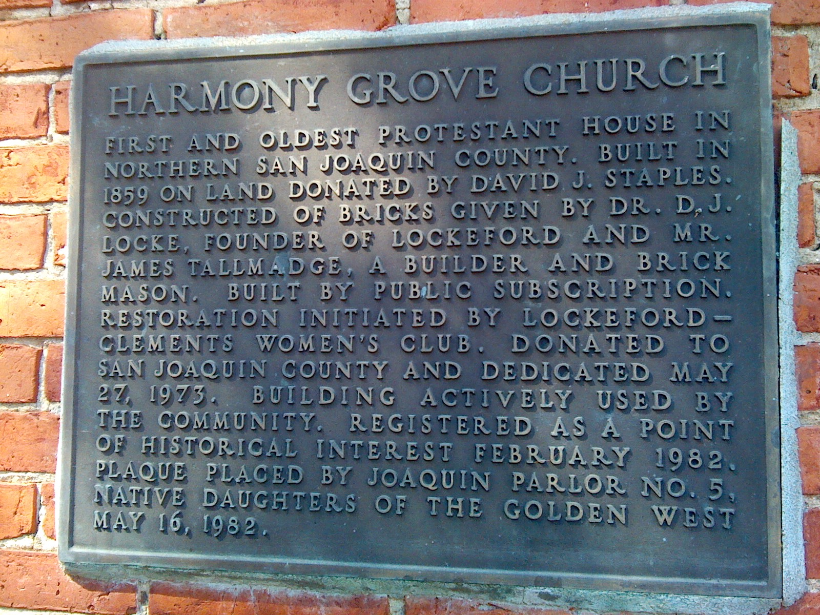 Harmony Grove Church Plaque placed by Joaquin Parlor No. 5 on May 16th, 1982